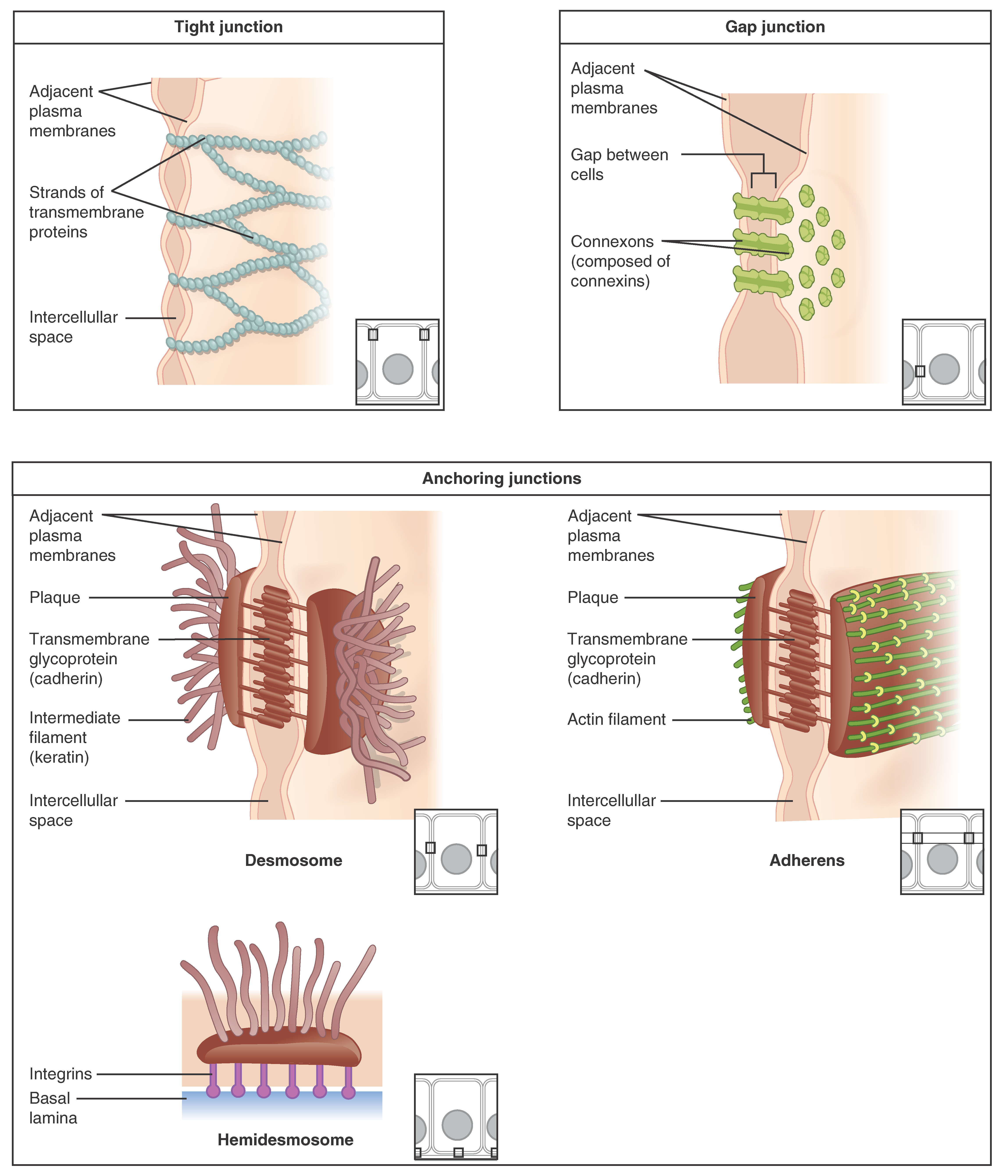 Illustration from Anatomy & Physiology, Connexions Web site. Jun 19, 2013.